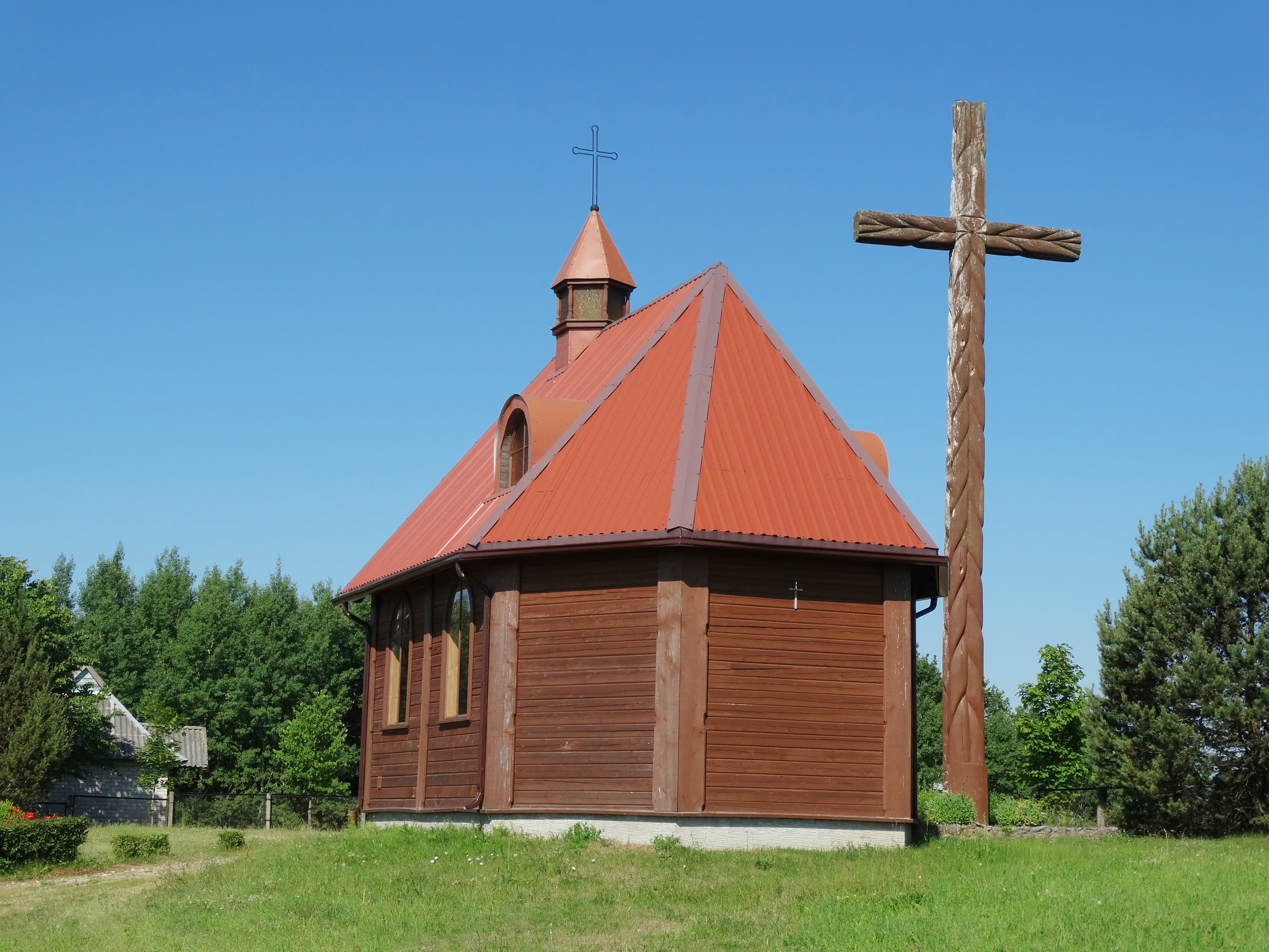 Dvarviečiai Chapel, Šilalė District, Lithuania